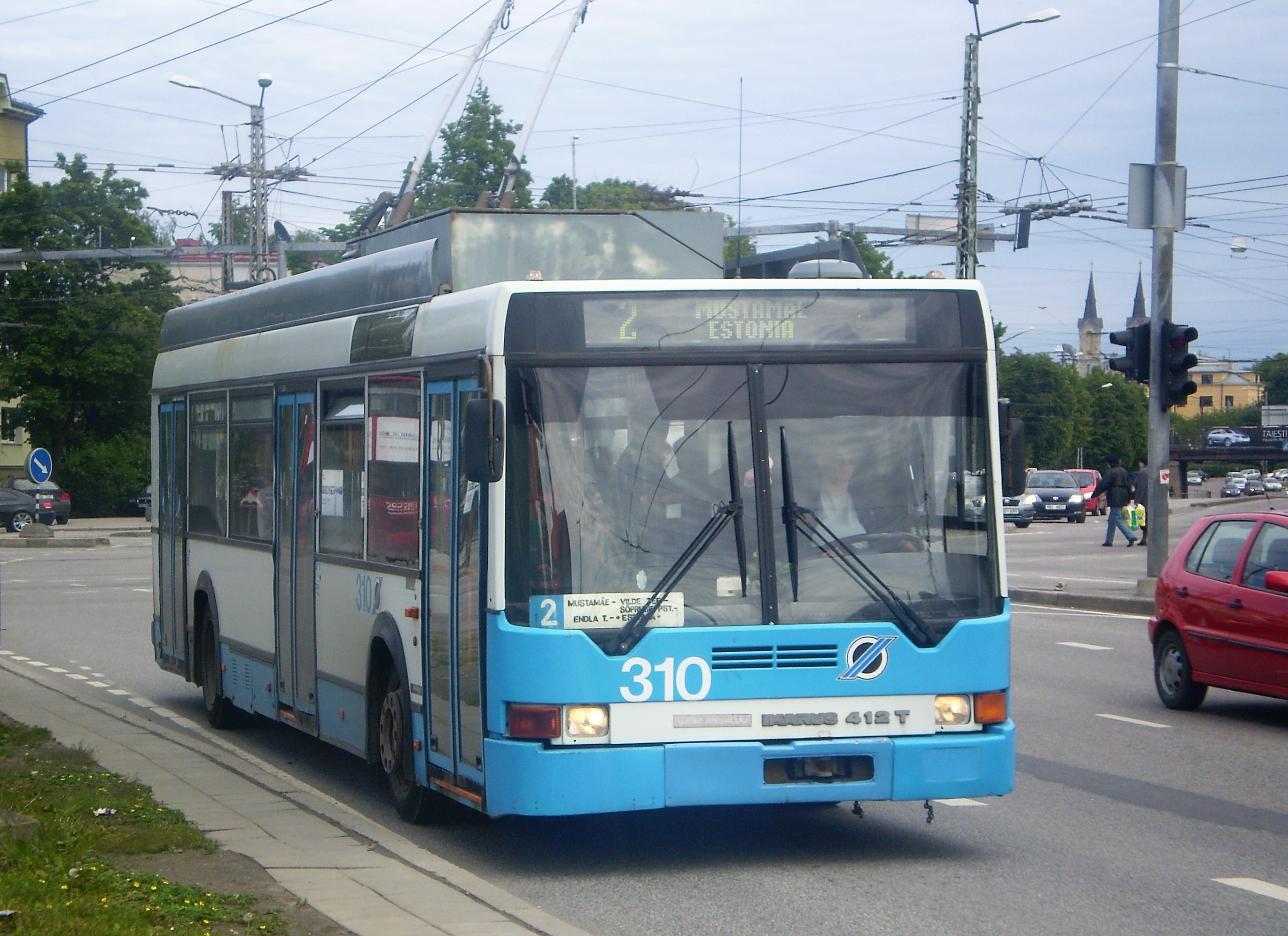 Ikarus412T in Tallinn.